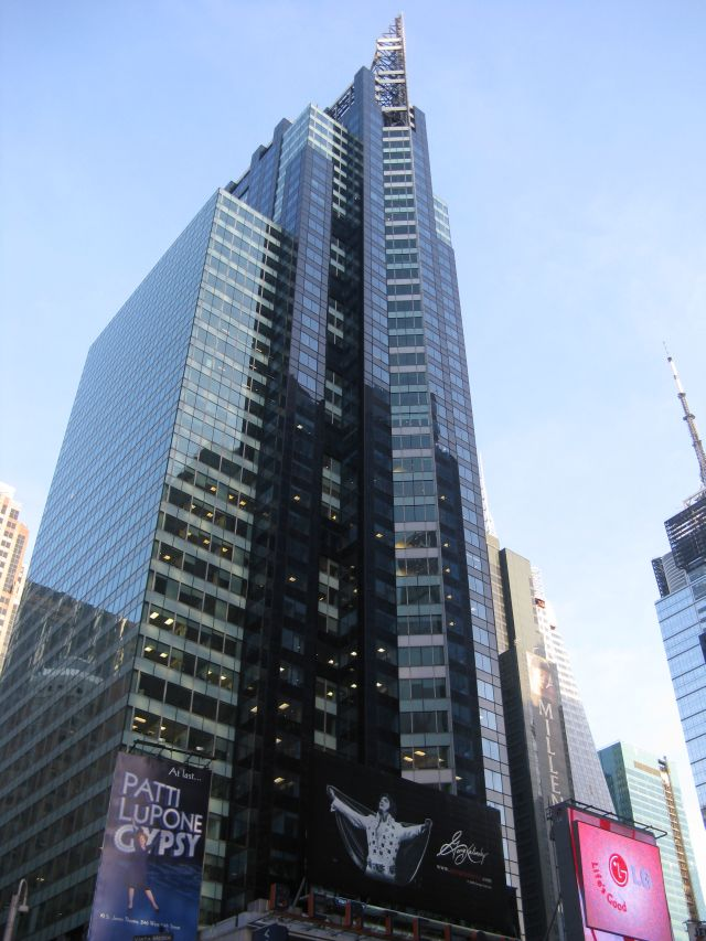 Bertelsmann Building, 1540 Broadway